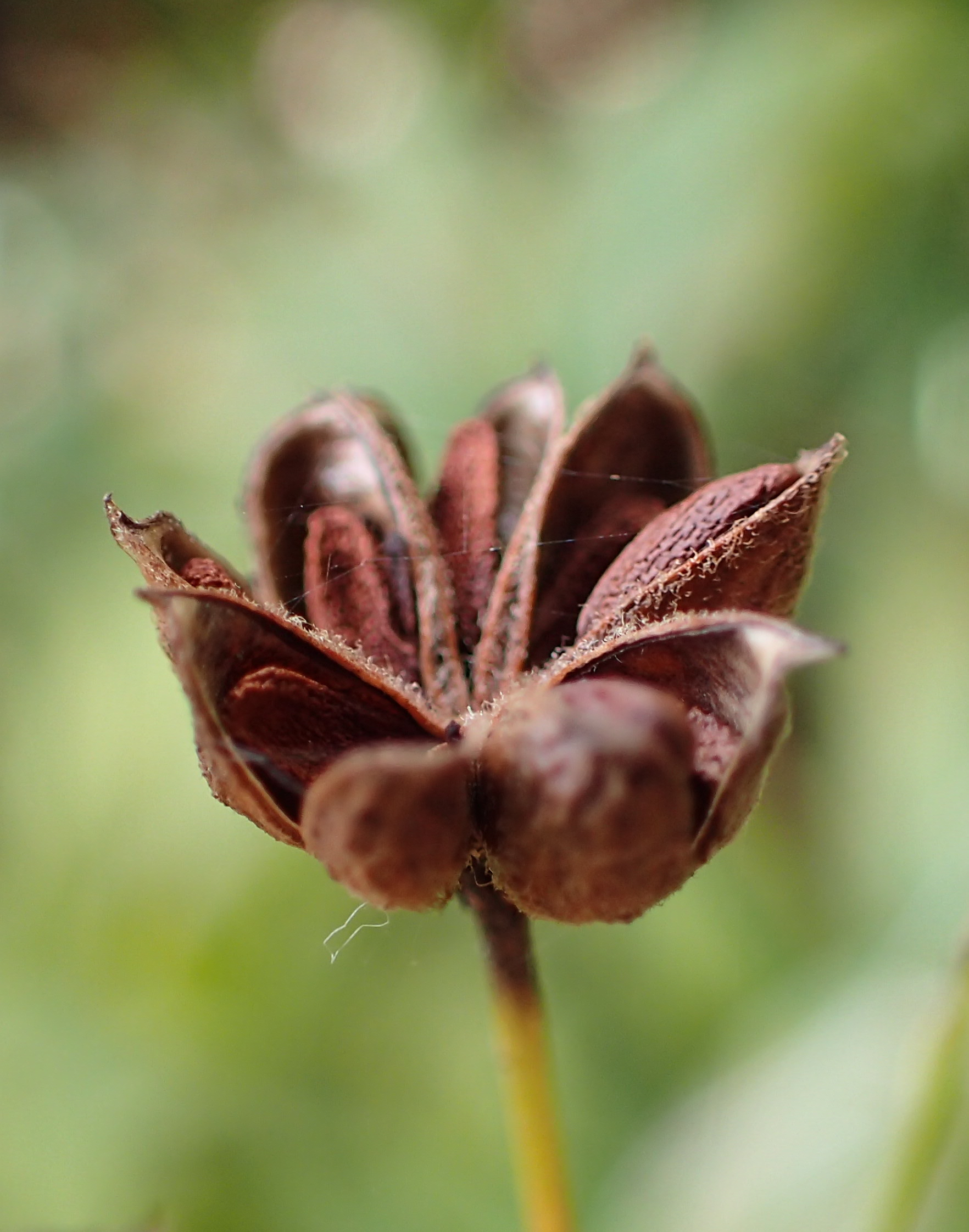 Gillenia trifoliata in Olbrich Botanical Gardens, Madison